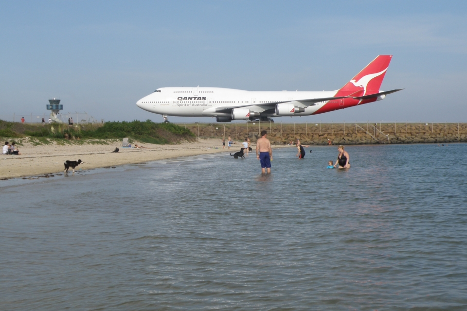 Qantas jet on taxiway with aircraft viewing area and beach in foreground